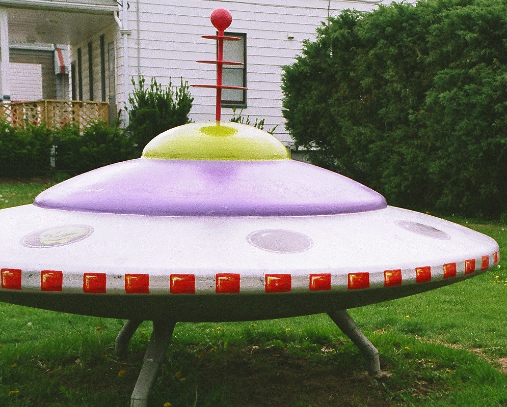 Mars, Pennsylvania local landmark called the "spaceship"